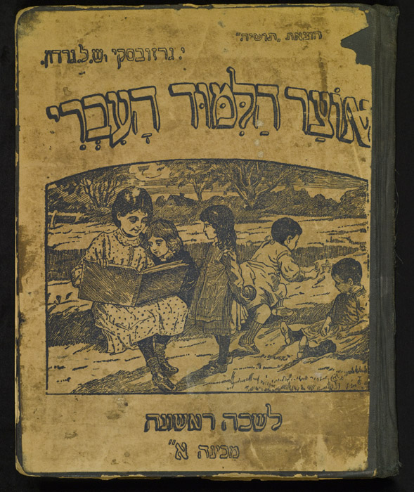 Description: Otzar ha-limud ha-ivri To read the entire book, clickhere. Author: Garzuvsky, Y Author: Gordon, S. L Author: Tshurny, G. Dimensions: 87 pages Object Origin: Warsaw Date: 1904 Persistent URL: Repository:Yeshiva University Museum Call Number: 1998.853 Rights Information: No known copyright restrictions; may be subject to third party rights. For more copyright information, click here. See more information about this image and others at CJH Digital Collections. Digital images created by the Gruss Lipper Digital Laboratory at the Center for Jewish History